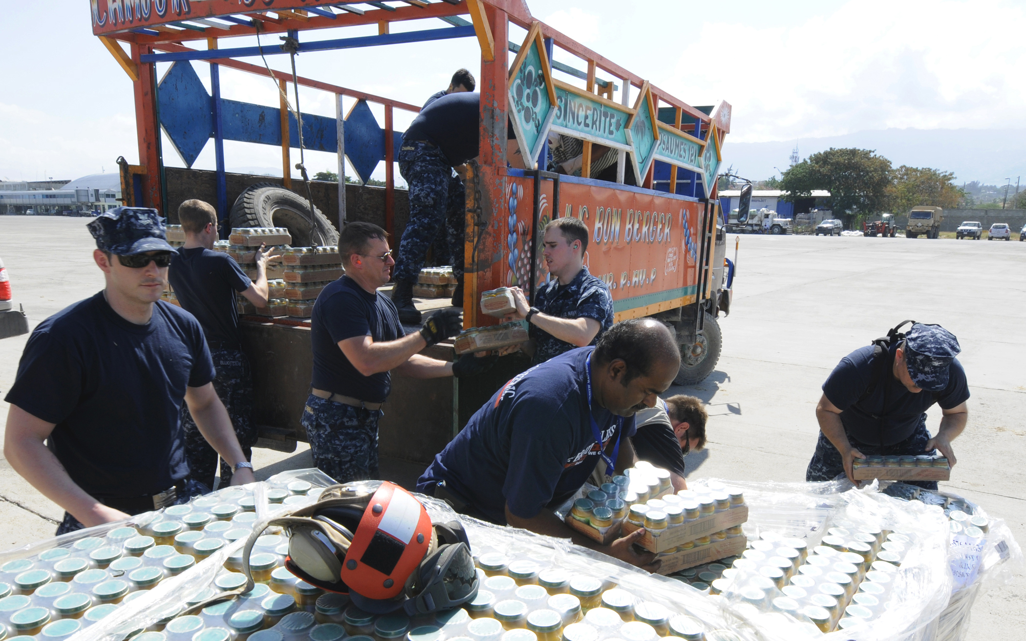 PORT-AU-PRINCE, Haiti (Feb. 1, 2010) Sailors from the Nimitz-class aircraft carrier USS Carl Vinson (CVN 70) move jars of baby food onto an aid truck. Carl Vinson and Carrier Air Wing (CVW) 17 are conducting humanitarian and disaster relief operations as part of Operation Unified Response after a 7.0 magnitude earthquake caused severe damage in and around Port-au-Prince Jan. 12. (U.S. Navy photo by Mass Communication Specialist 2nd Class David Shen/Released)